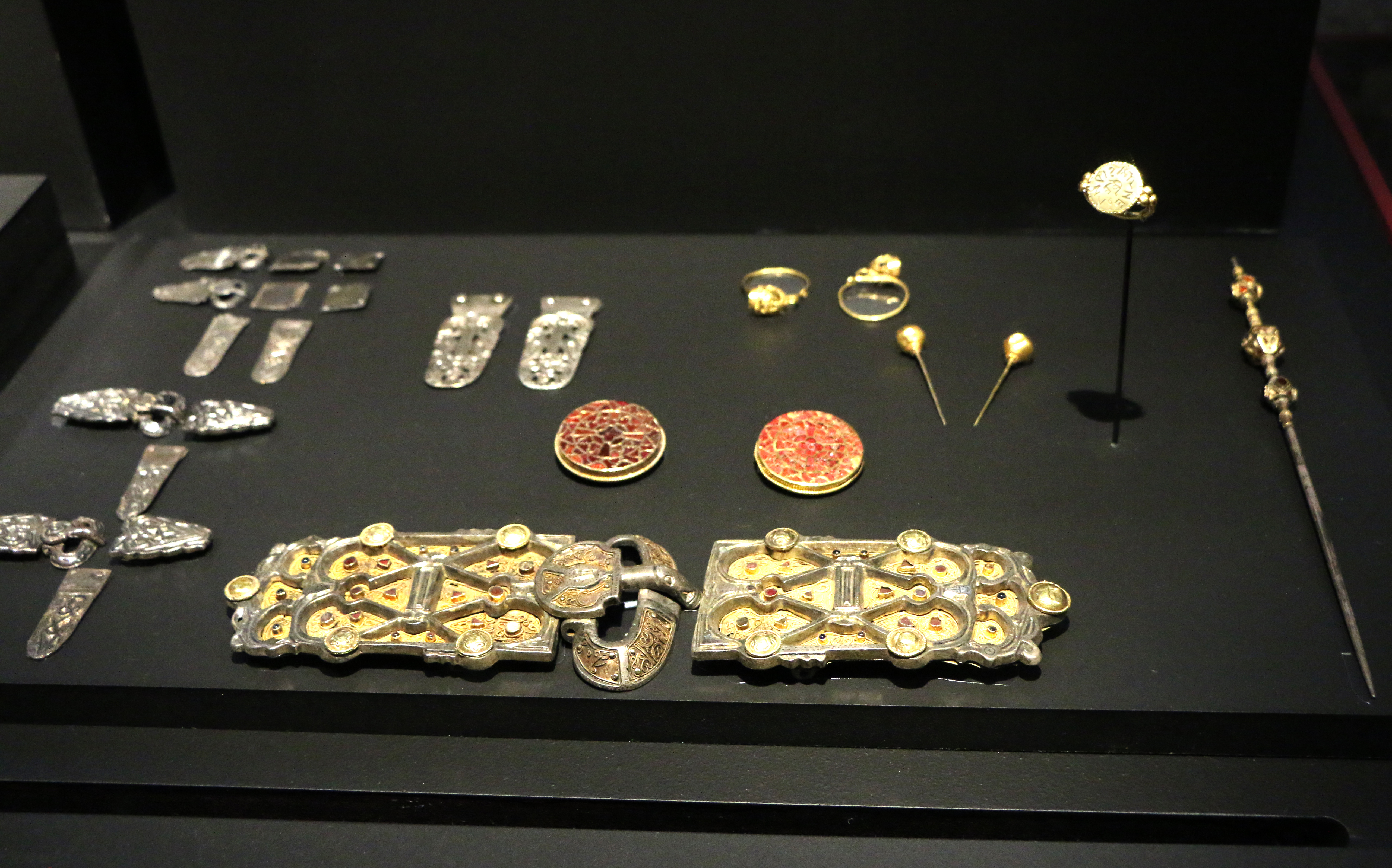 General view of all the jewelry found in queen Aregund's grave - Usually in the Museum of National Archeology in Saint-Germain-en-Laye near Paris